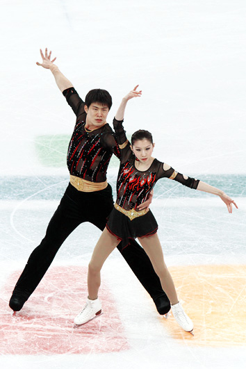 Zhang Dan and Zhang Hao at the 2010 Winter Olympics (FS).